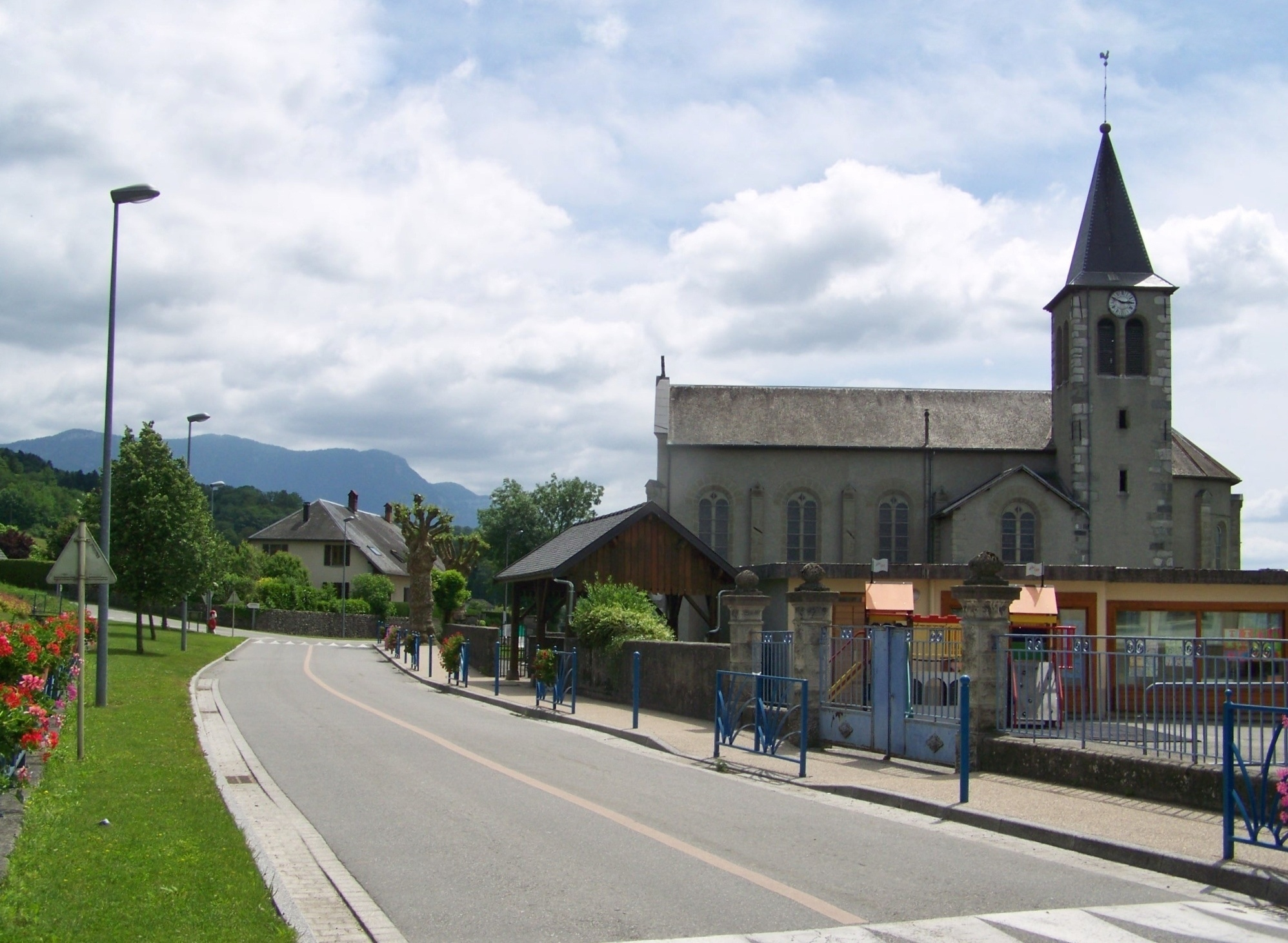 Sight of commune of Saint-Girod city center and its church, in Savoie, France.